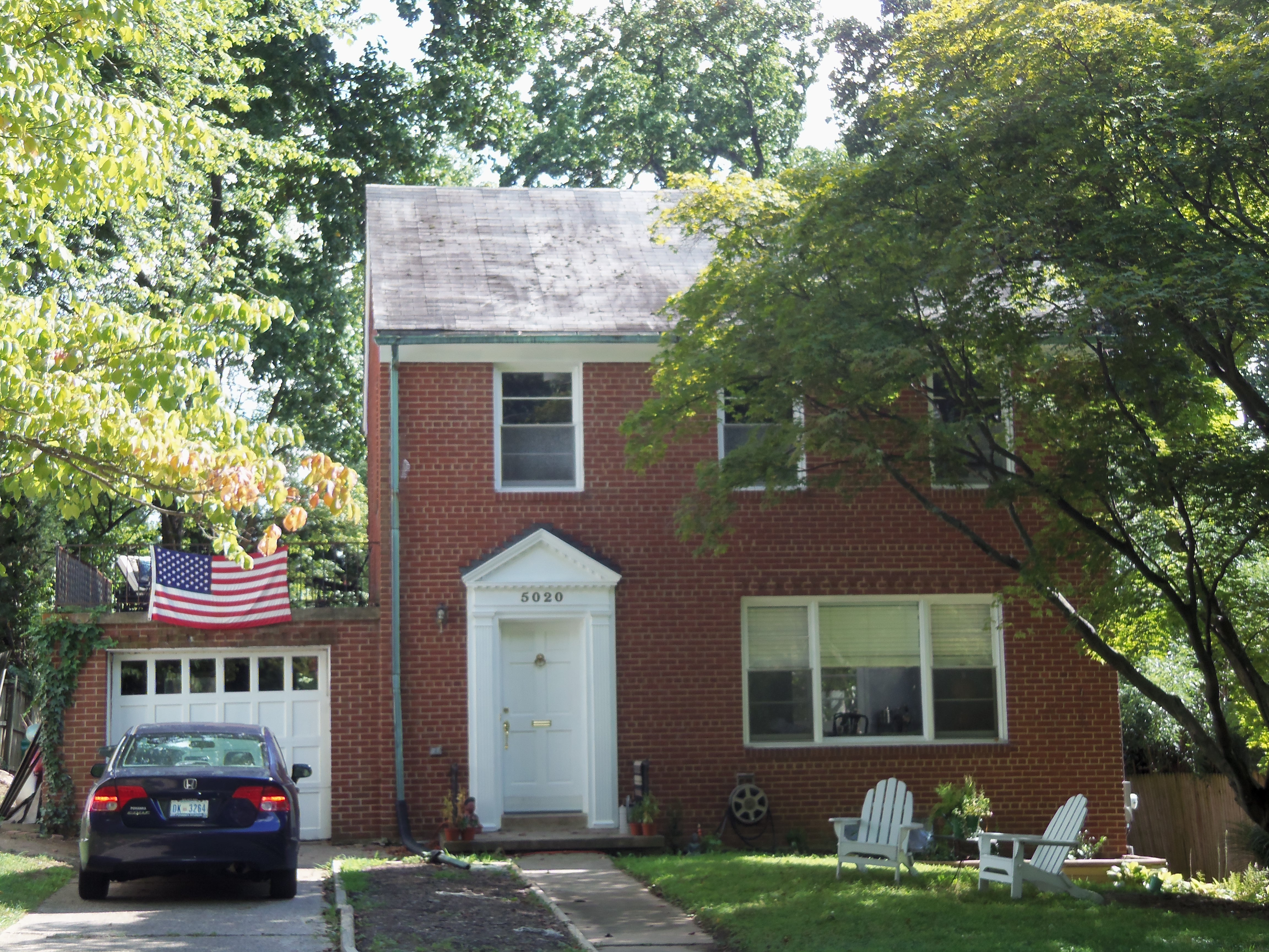 The Dr. Franklin E. Kameny House is located at 5020 Cathedral Ave., NW, Washington, DC. It is listed on the National Register of Historic Places. Kameny was a pioneer in fighting for LGBT civil rights.